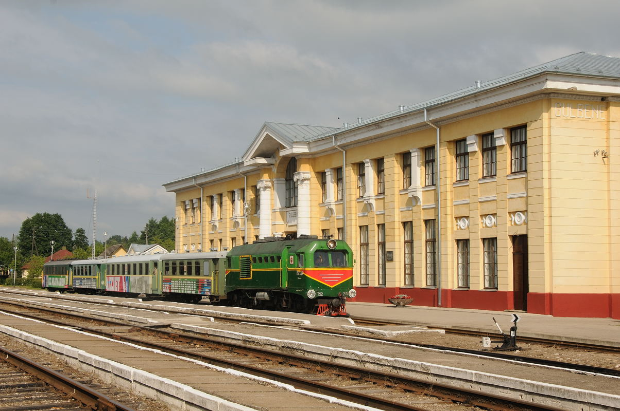 Railway station of Gulbene with narrow gauge train arived from Aluksne.